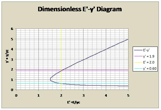 Compare E'y' diagram